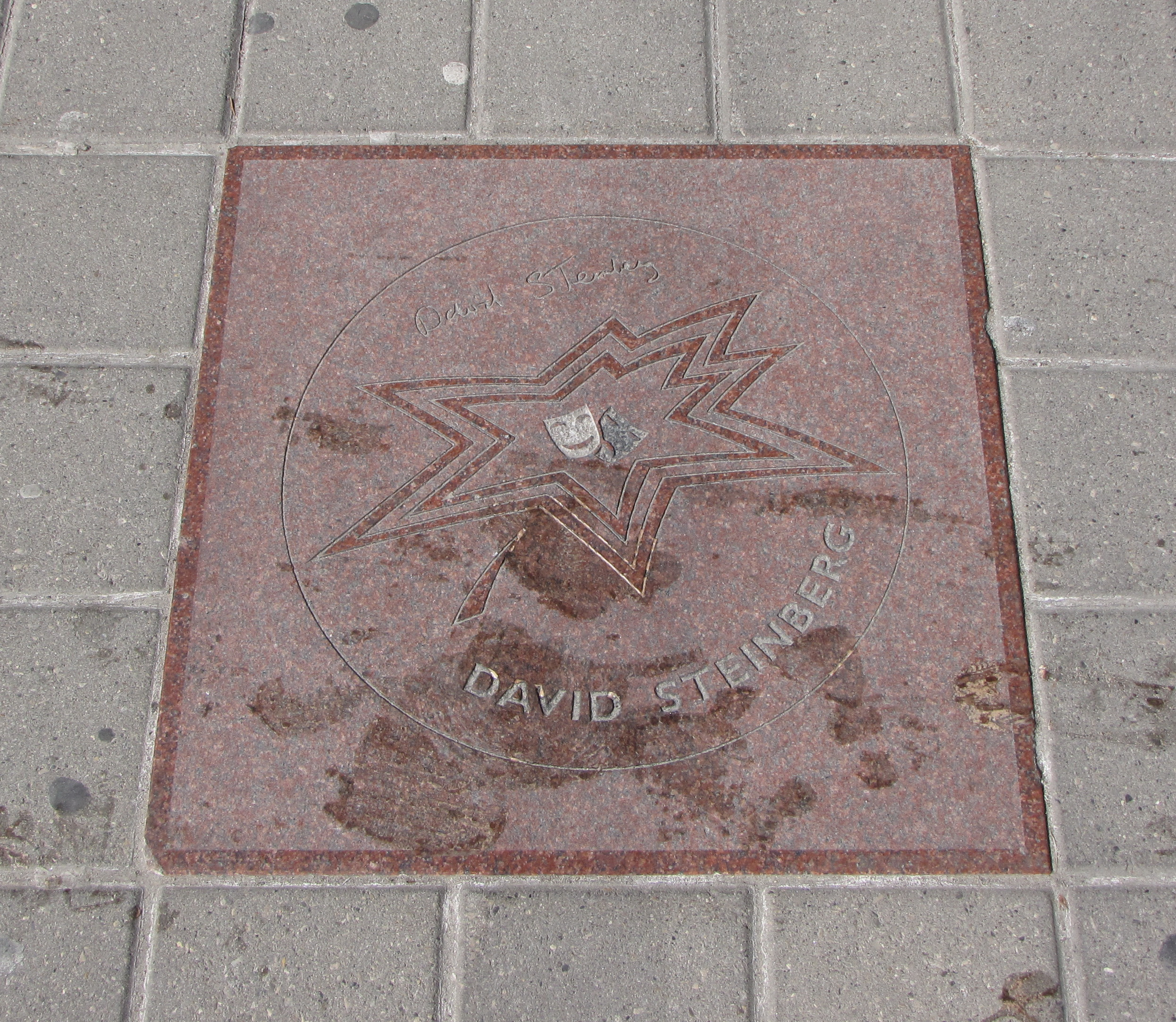 David Steinberg's star on Canada's Walk of Fame